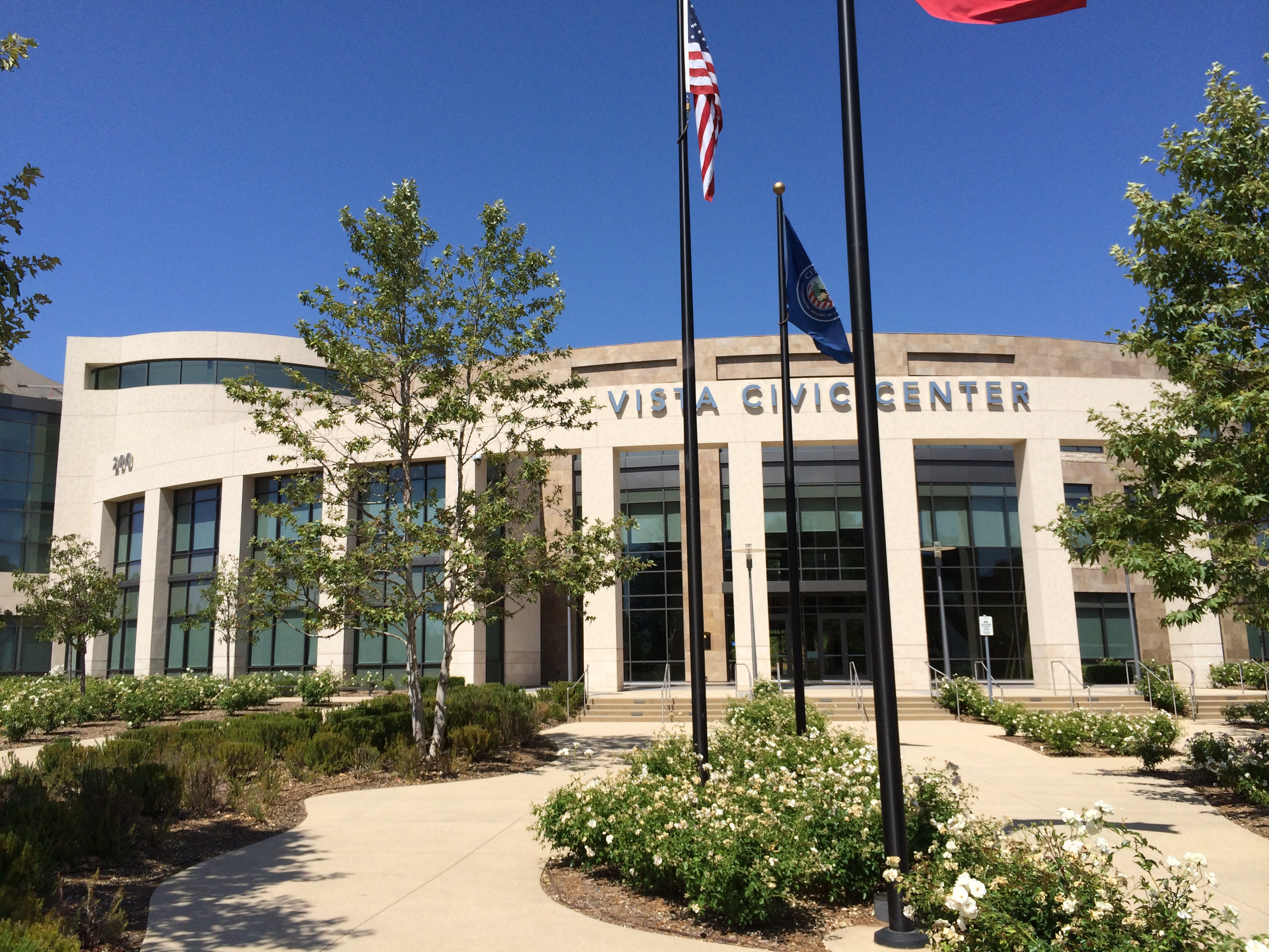 Vista Civic Center entrance, as viewed from Civic Center Dr.